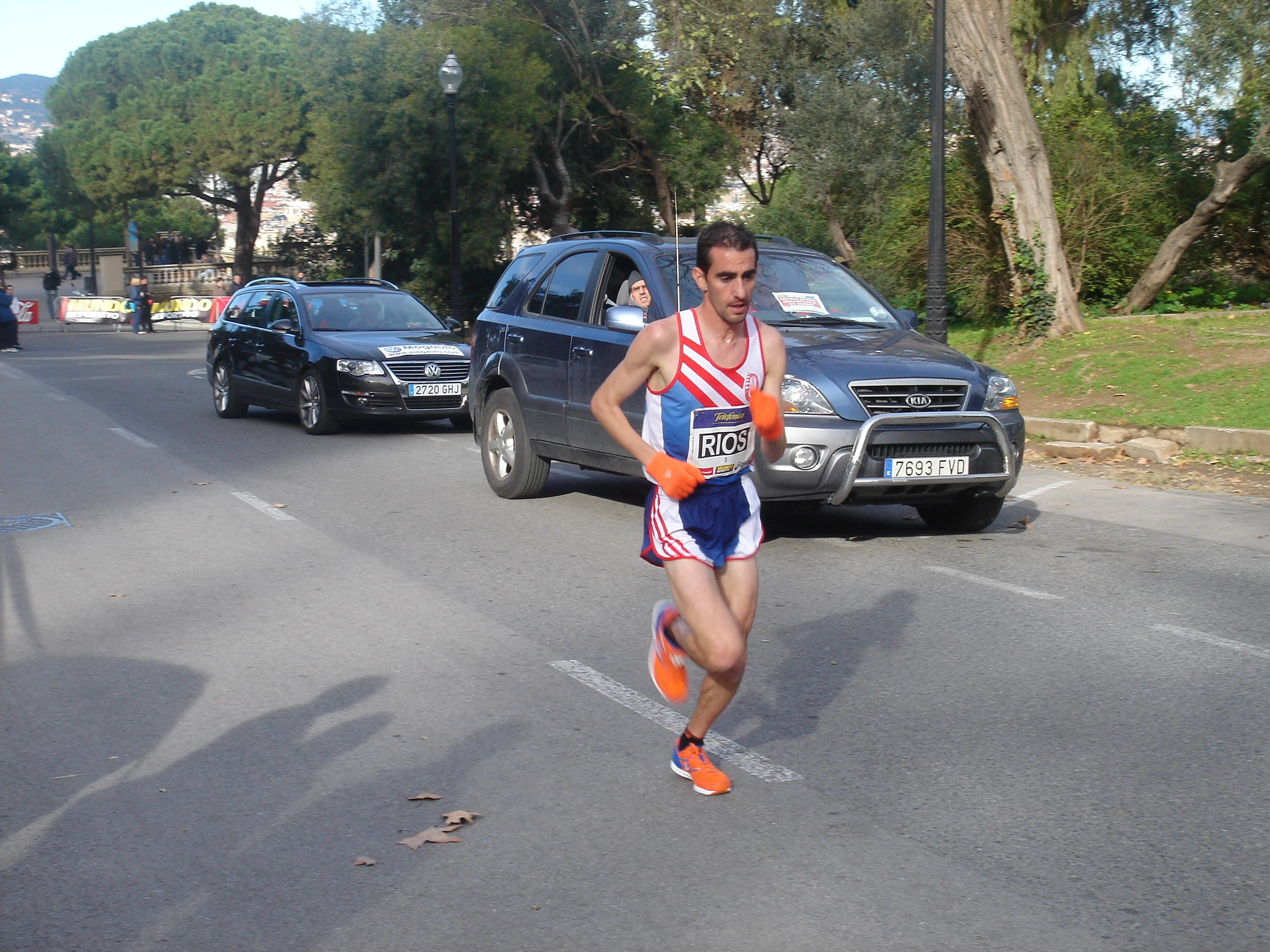 José Ríos en primer lugar en la última vuelta de la Jean Bouin de Barcelona de 2008.